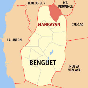 Map of Benguet showing the location of Mankayan